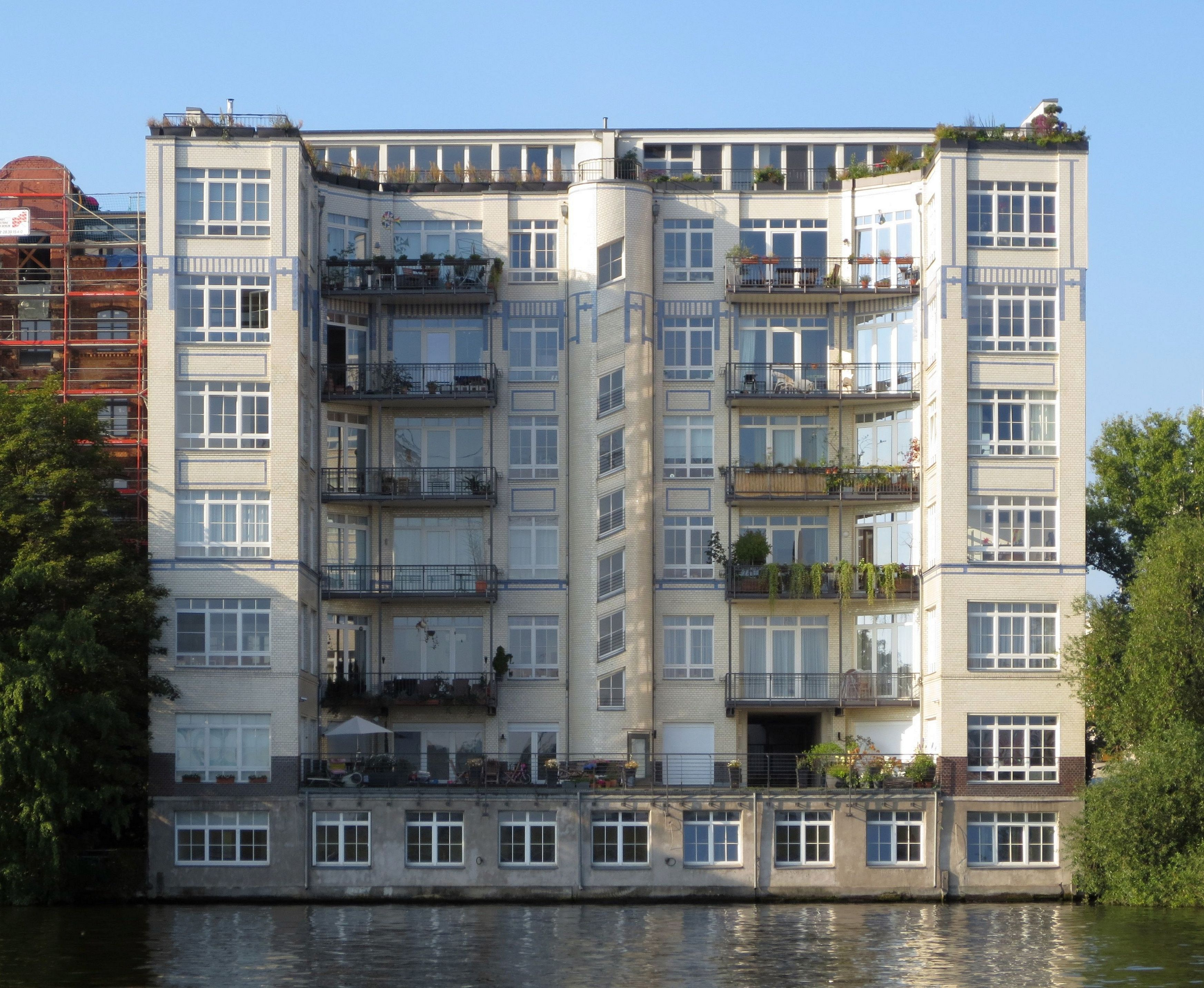 Riverside front of the former small businesses yard at Köpenicker Straße No. 10A in Berlin-Kreuzberg, hier seen from the other side of the Spree in Berlin-Friedrichshain. The complex consists of a residential building on Köpenicker Straße and the former small businesses yard reaching to the riverside of the Spree (now also occupied by apartments). It was constructed in 1890 by C. F. Omar Urban. The complex is part of the protected historic buildings area Köpenicker Straße.